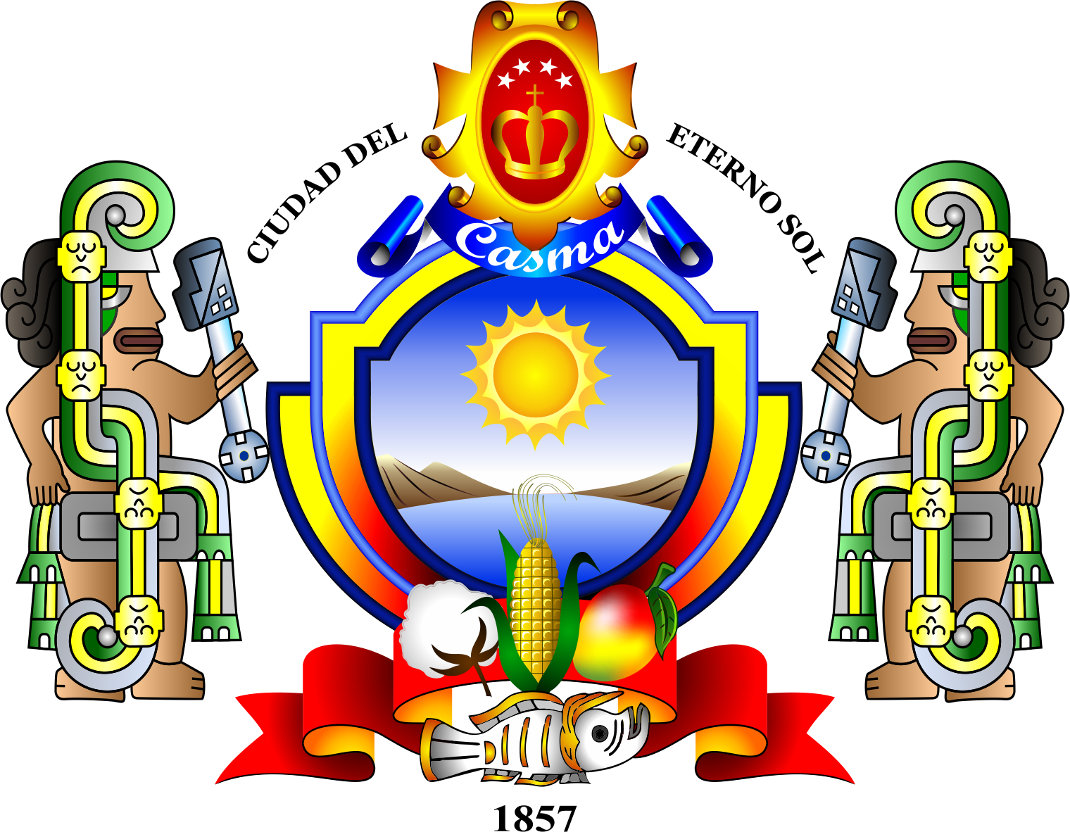 Casma District - Province of Casma - Ancash Region